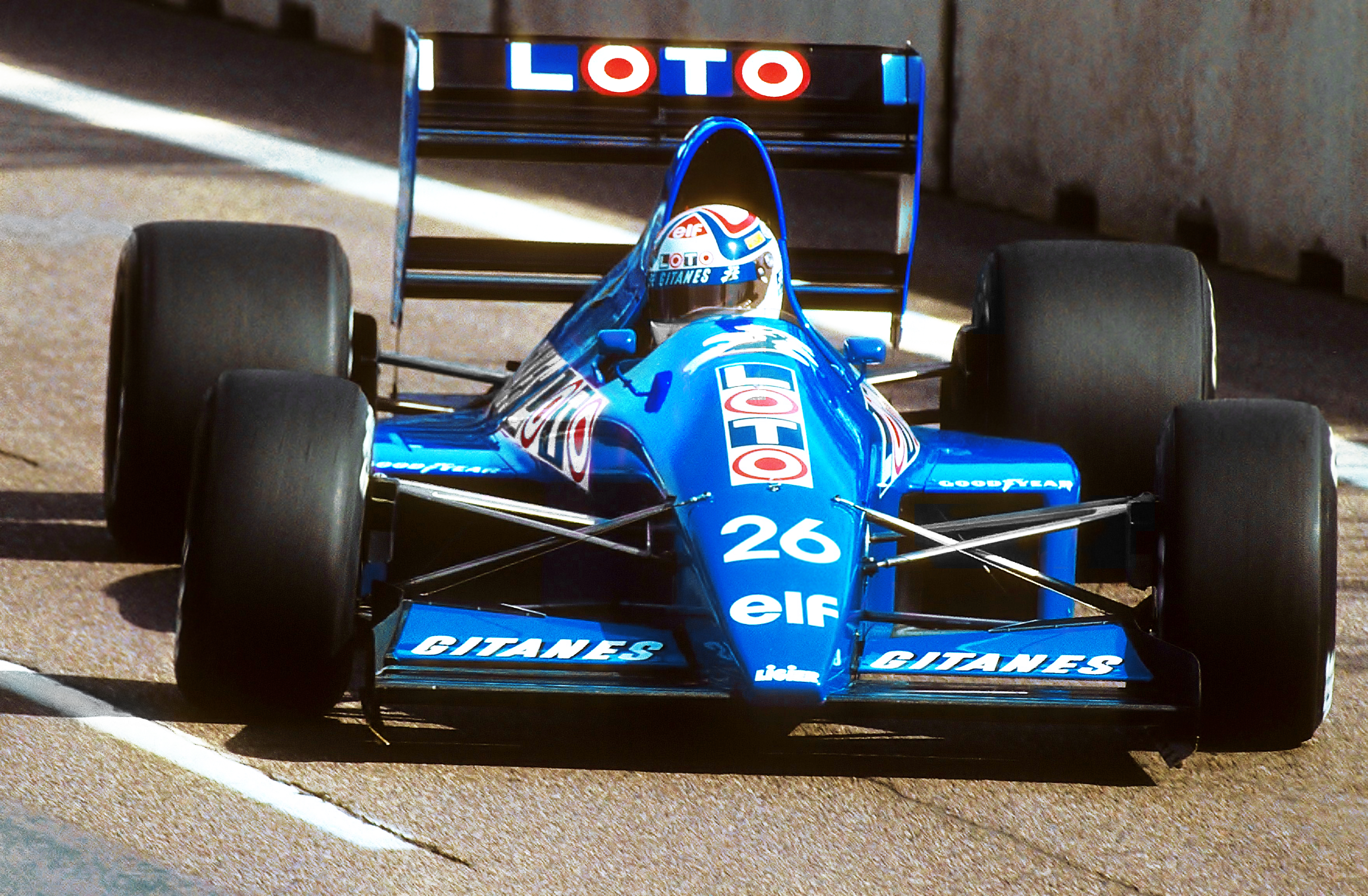 Philippe Alliot (Ligier) at the 1990 United States Grand Prix, Phoenix